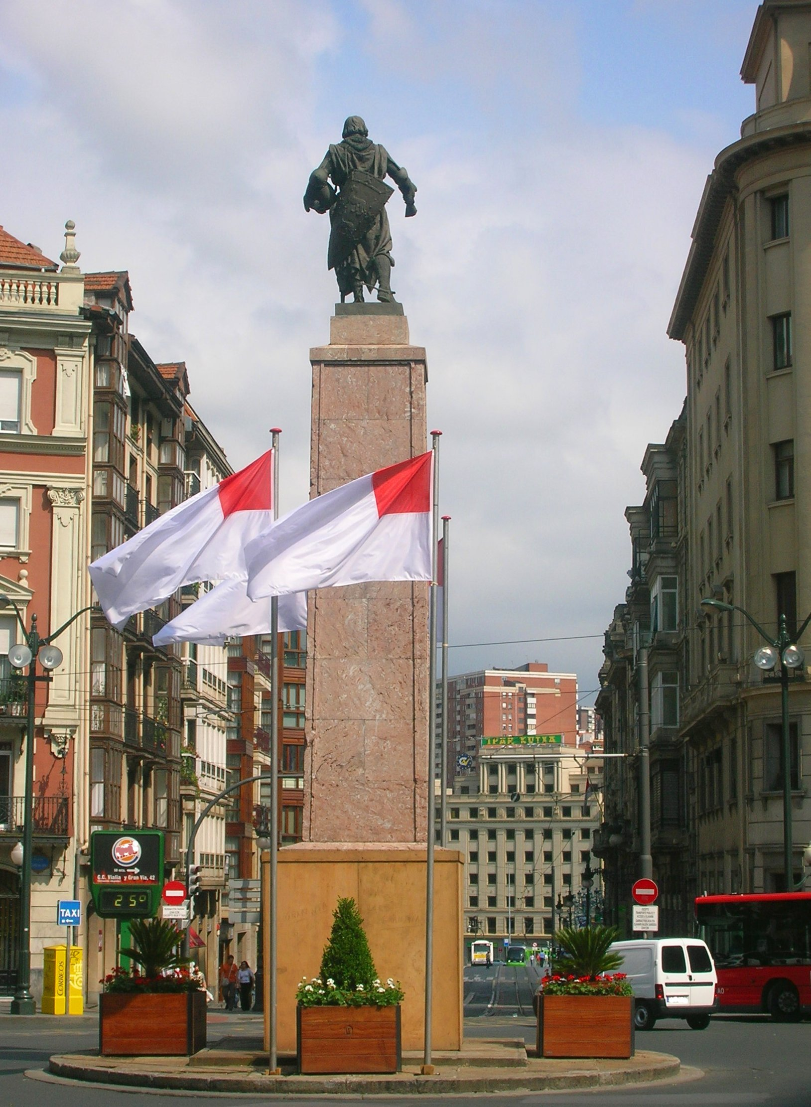 Monument to Diego Lopes V of Haro surrounded with flags of Bilbao in Plaza Circular/Plaza Borobila, celebrating the anniversary of the town's foundation. Sculpture by Mariano Benlliure.